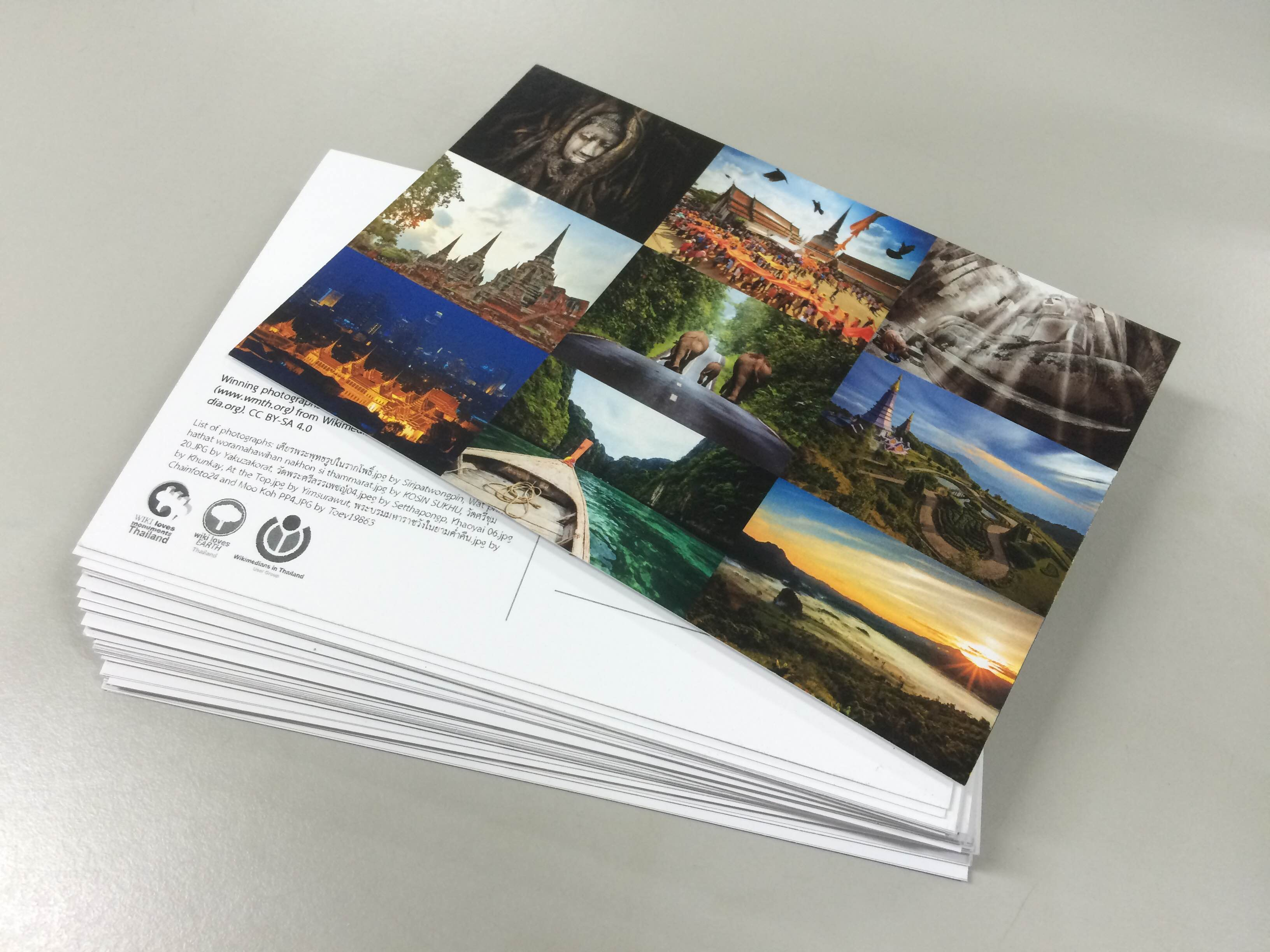 Postcards from Wikimedians in Thailand